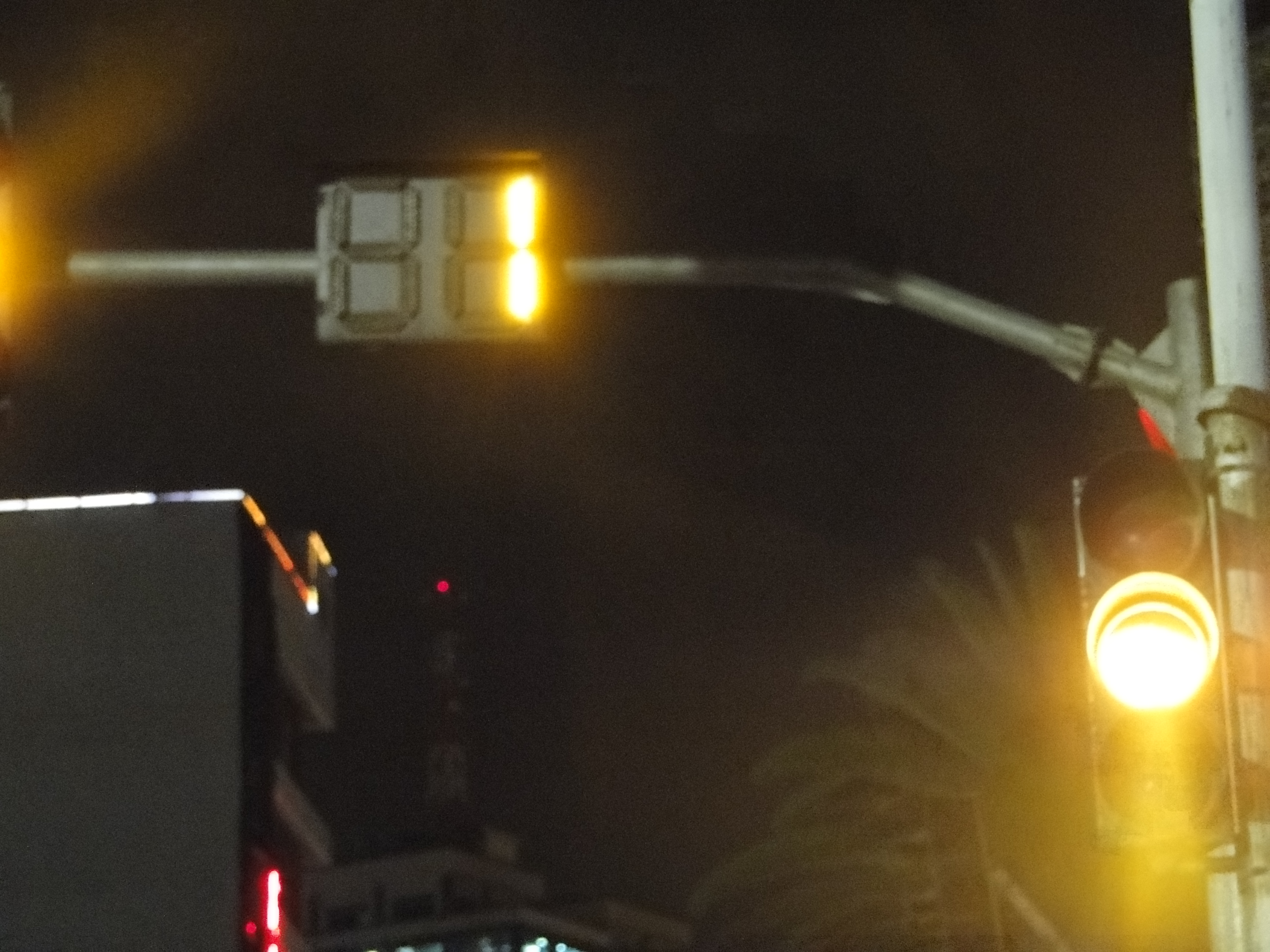 an amber street light counts down in Nairobi city center This is an image of Cultural Fashion or Adornment from Kenya